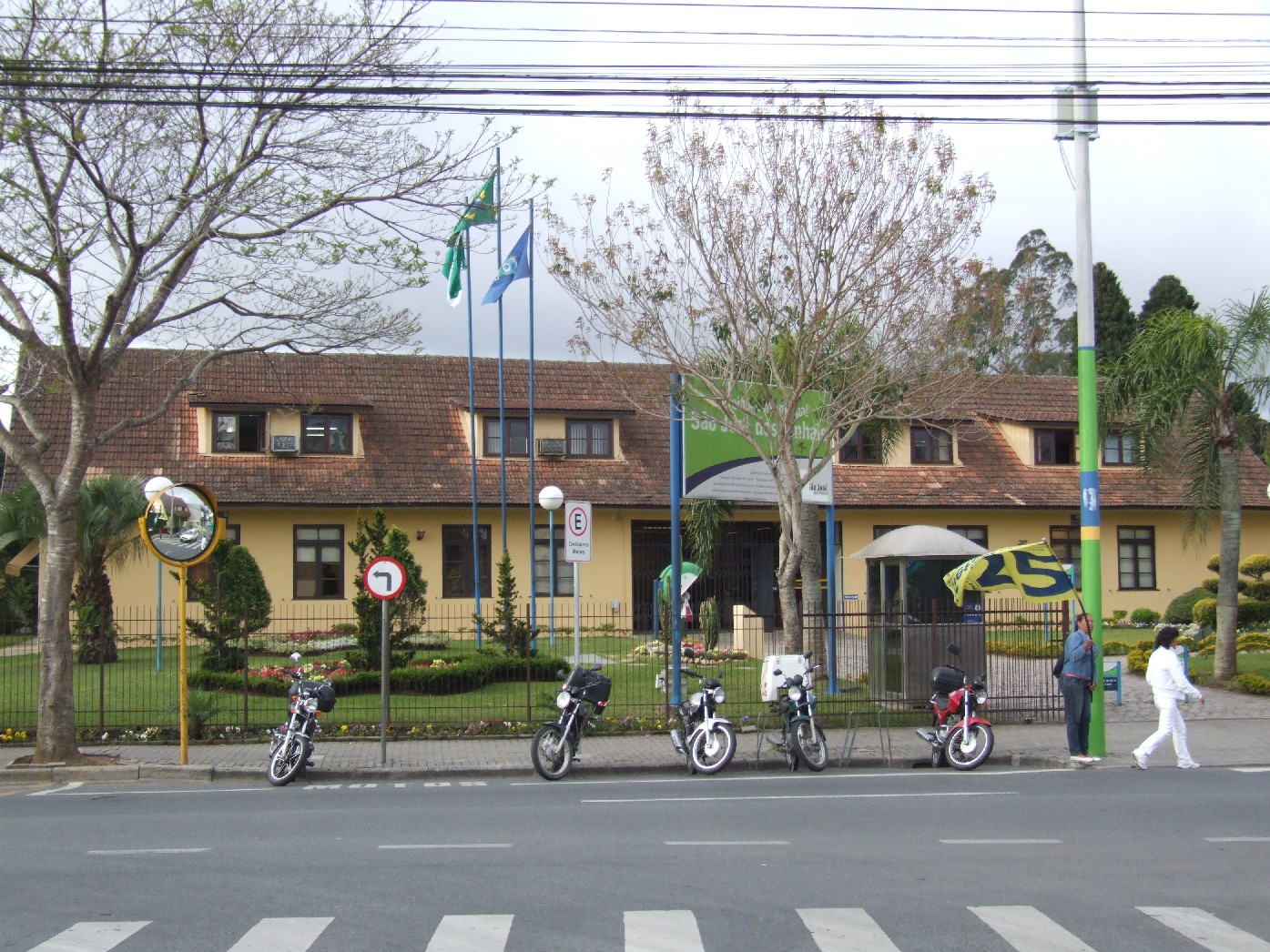 São José dos Pinhais City Hall, in the Brazilian state of Paraná